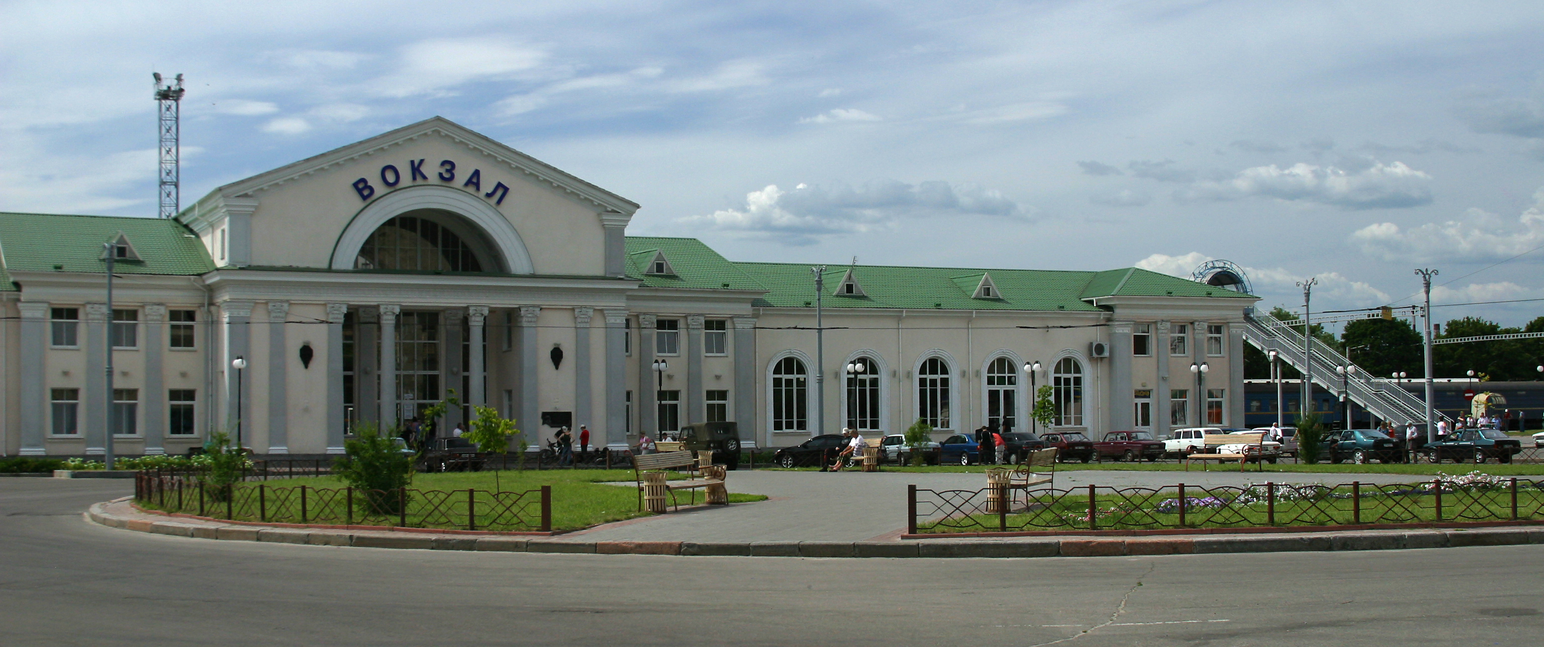 Train station of Poltava, Ukraine.